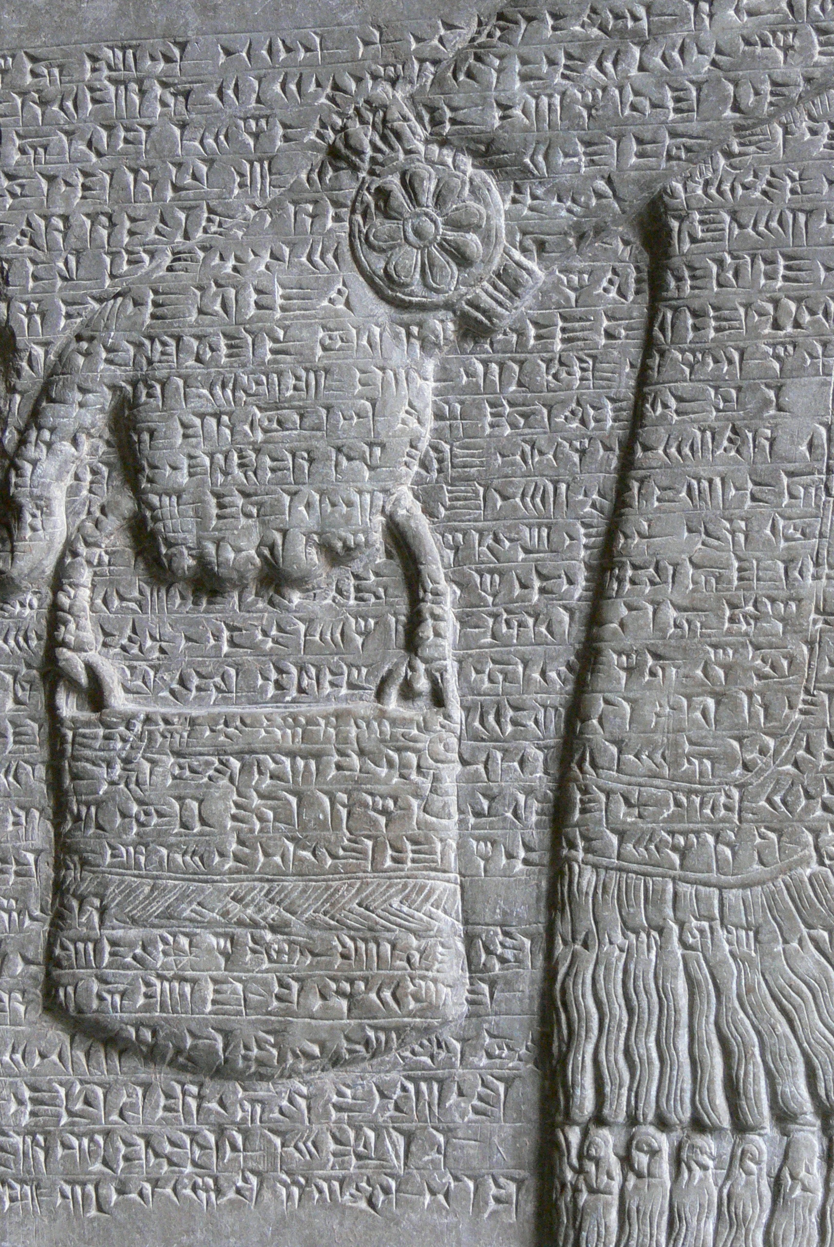 Museum of Ancient Near East ( Berlin ). Relief of the Assyrian king Assurnasirpal II ( 9th century BC ) - detail.